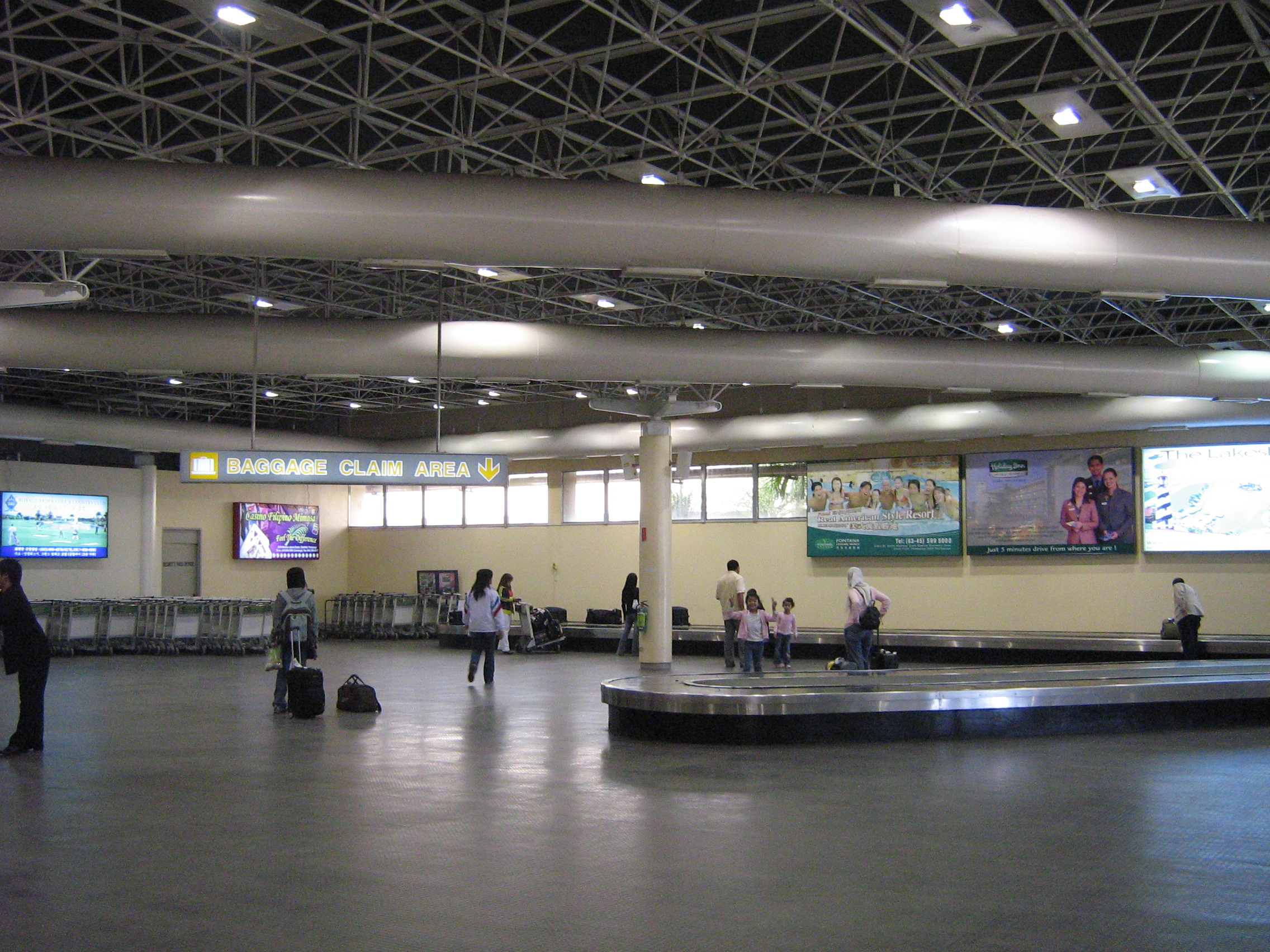 Baggage reclaim area at Diosdado Macapagal International Airport or Clark International Airport. Located in the Clark Freeport Zone, Pampanga Province, Central Luzon, the Philippines.